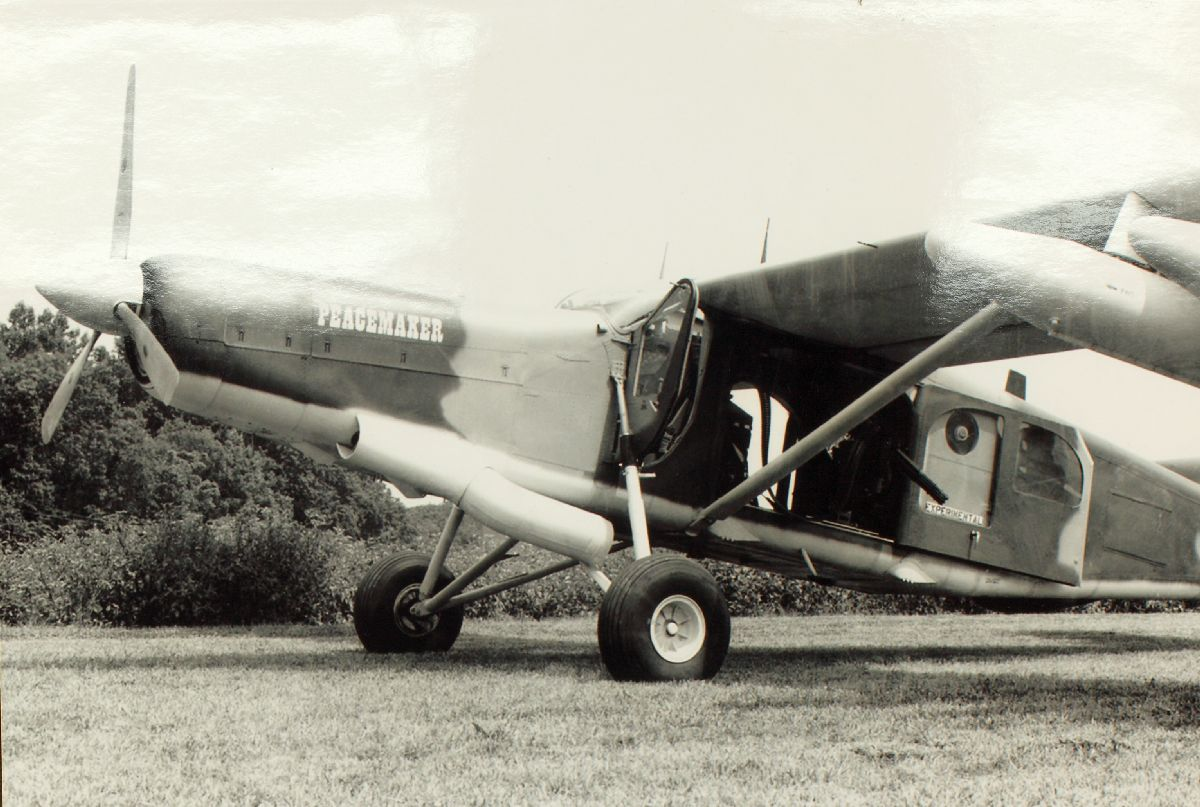 Fairchild AU-23A Peacemaker